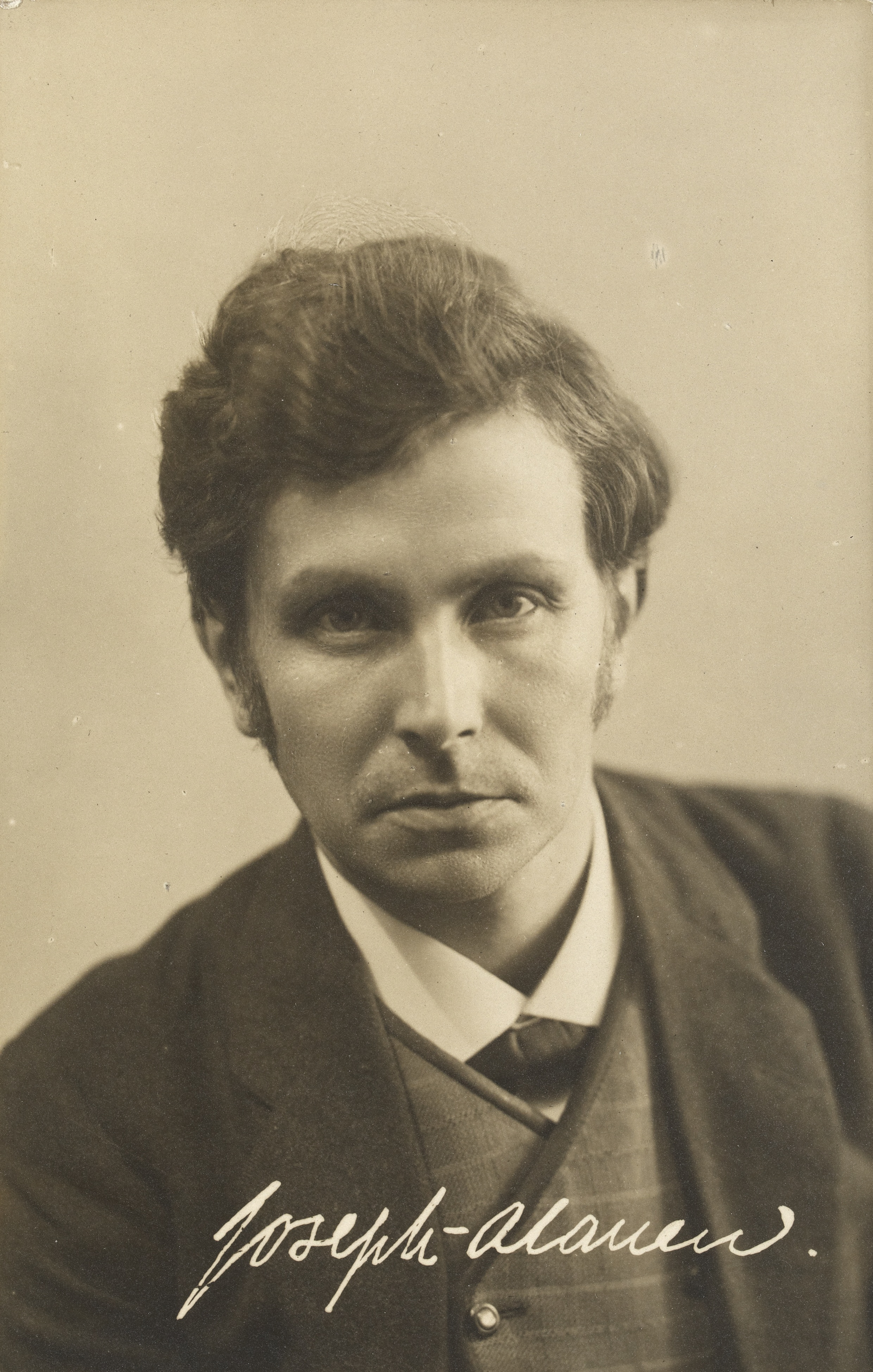 Photograph of the Finnish painter Joseph Alanen (1885-1920).